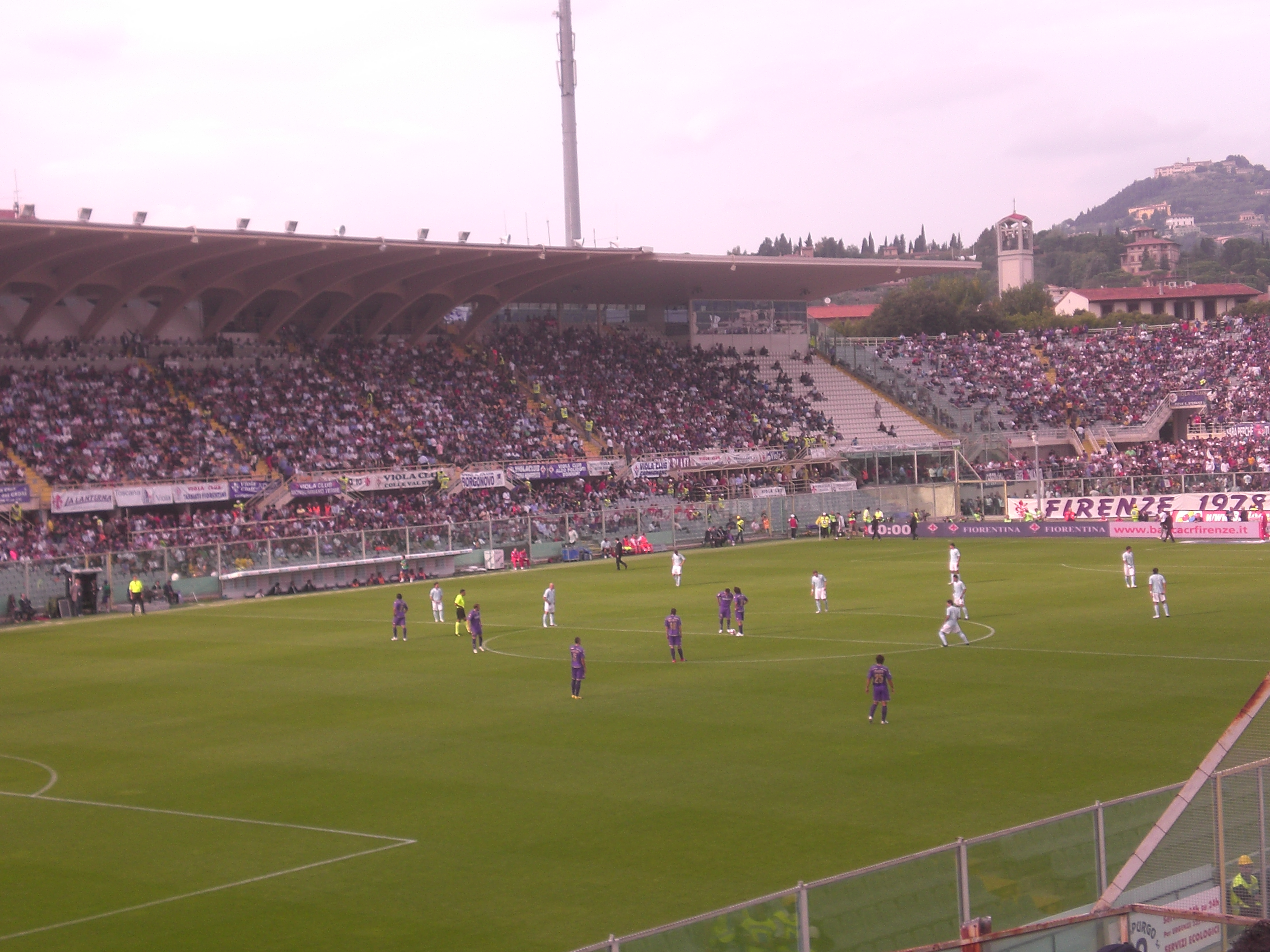 Fiorentina-Lazio on 04 October 2009.